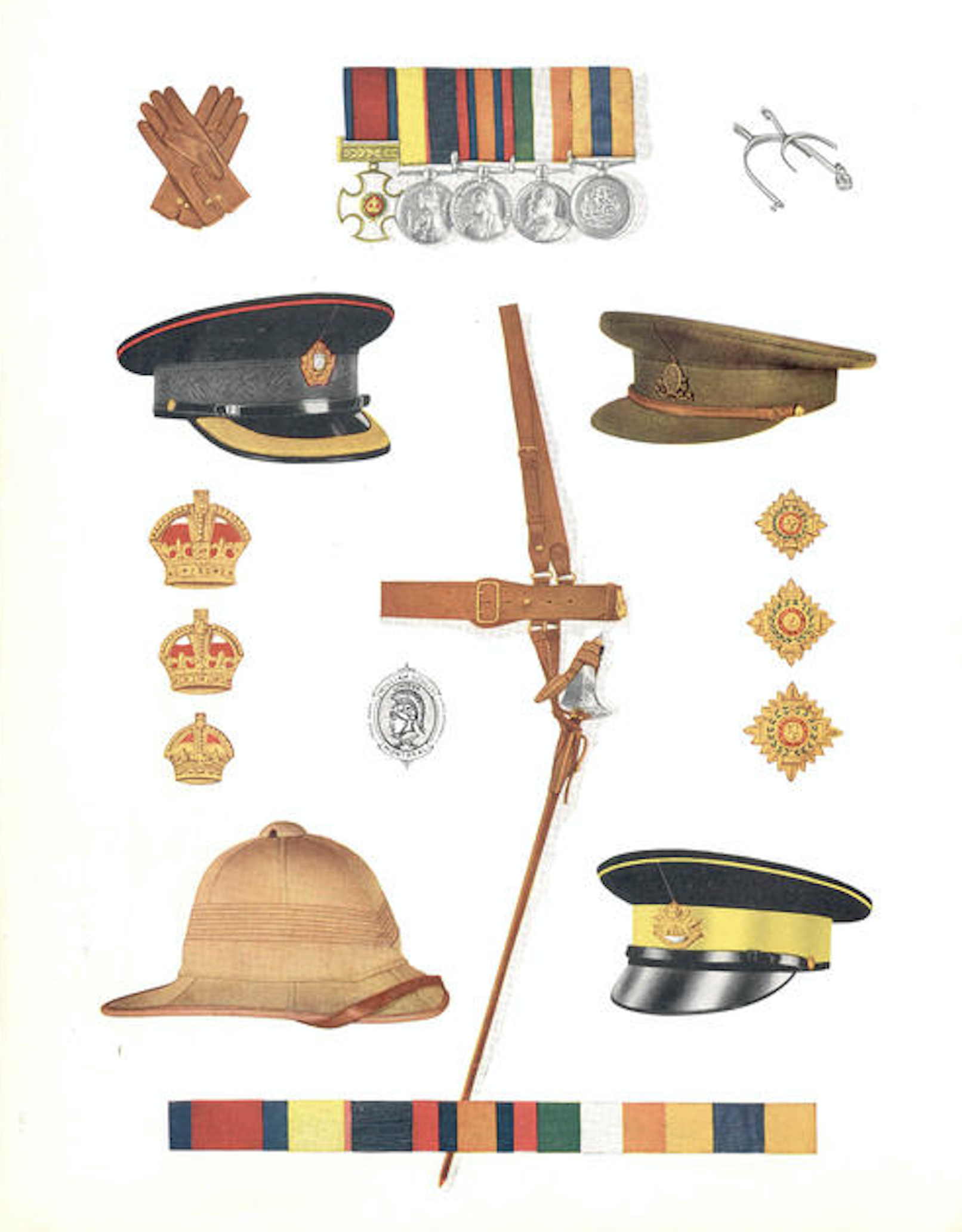 Canadian Uniforms Made by William Scully Ltd.